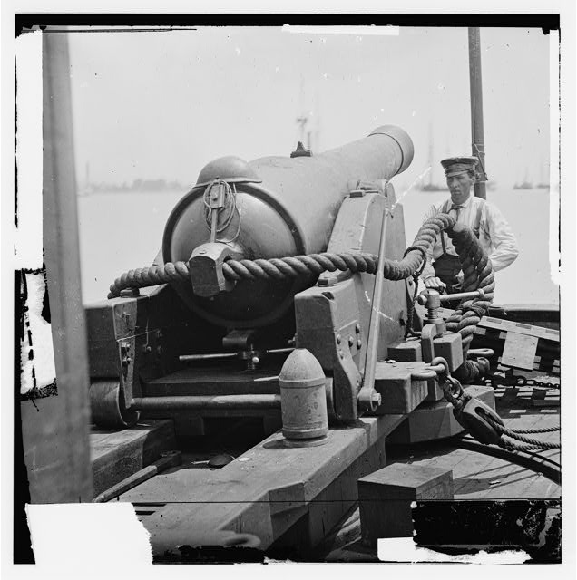 Confederate Naval Gun, 6.4 inch banded rifle, stern pivot mount, aboard CSS Teaser captured by the USS Maratanza, July 4, 1862. This cannon is on display at the Navy Museum at the Washington Navy Yard in Washington, DC.